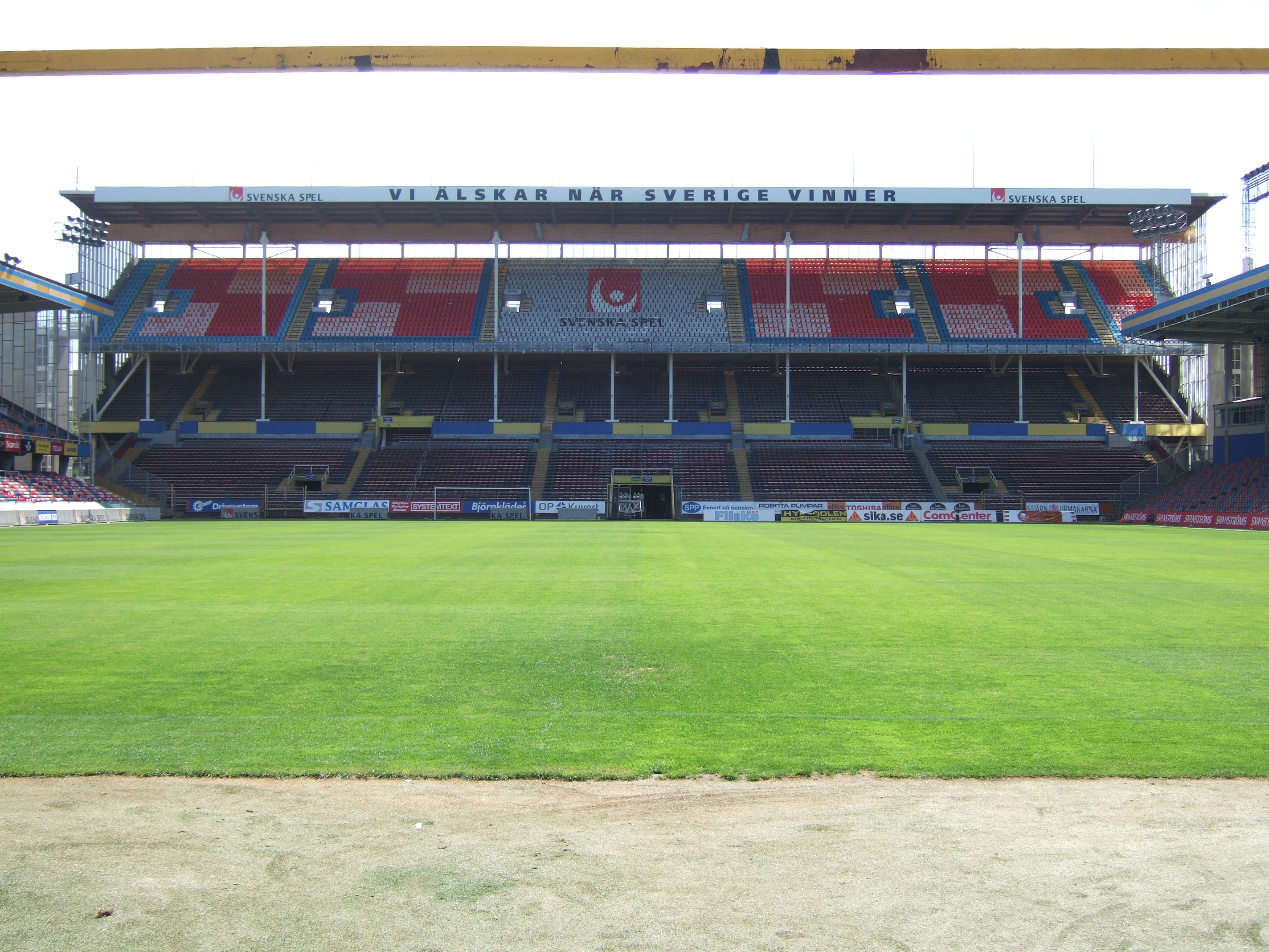 Råsundastadion, the south stand